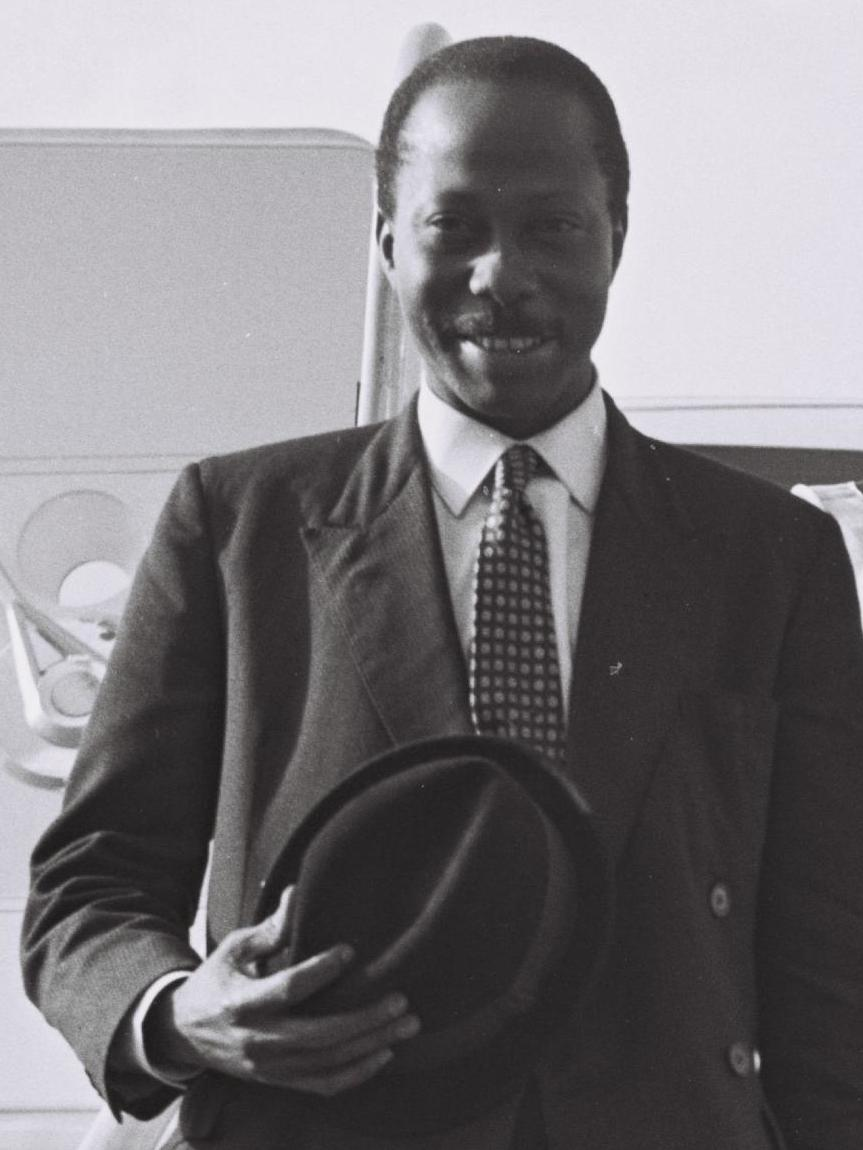 SIERRA LEONE CHIEF OF STAFF, BRIGADIER DAVID LANSANA AND HIS WIFE ARRIVING AT LOD AIRPORT.